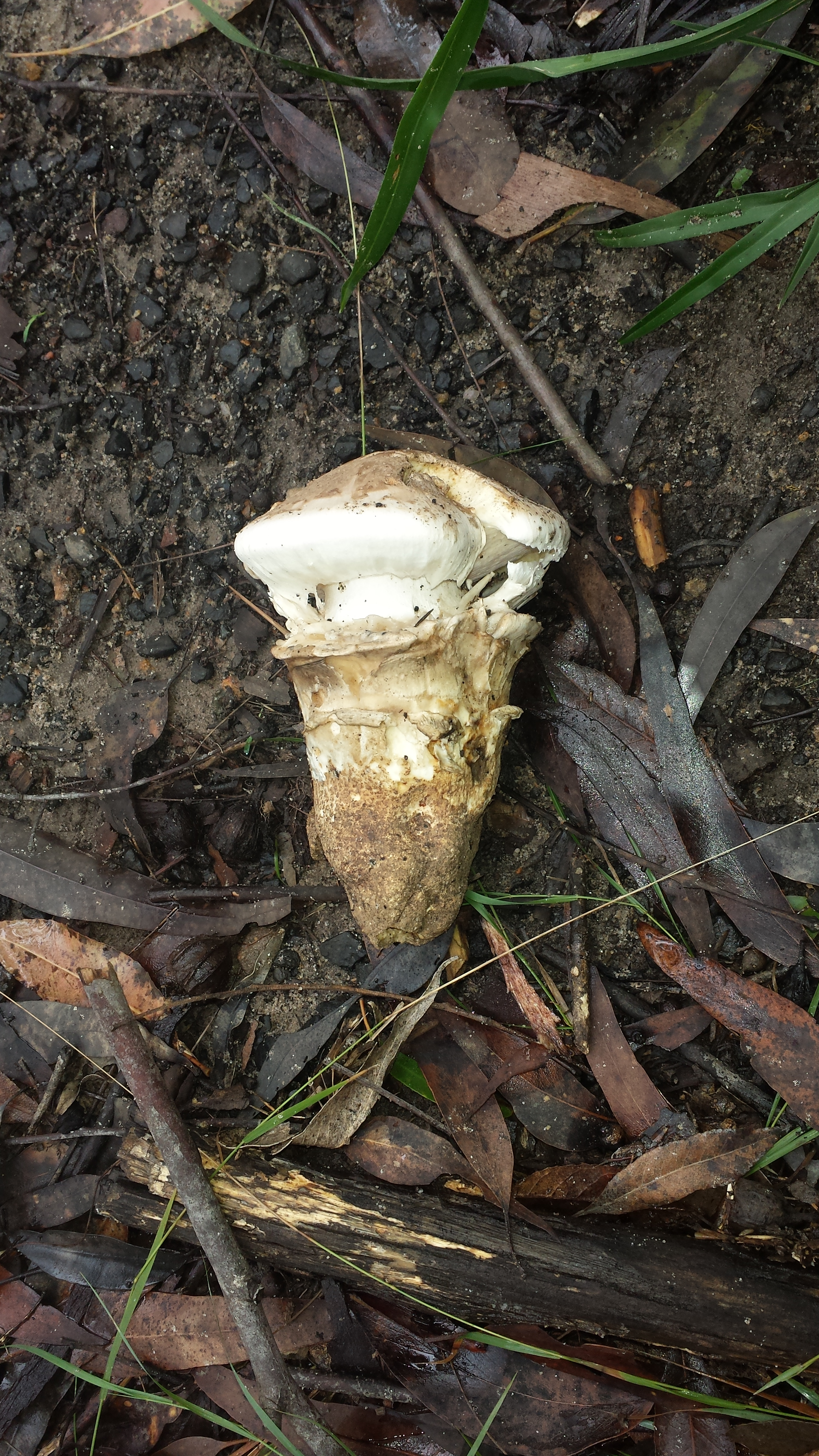 Cortinarius australiensis, Lane Cove National Park - baby mushroom enveloped in cortina